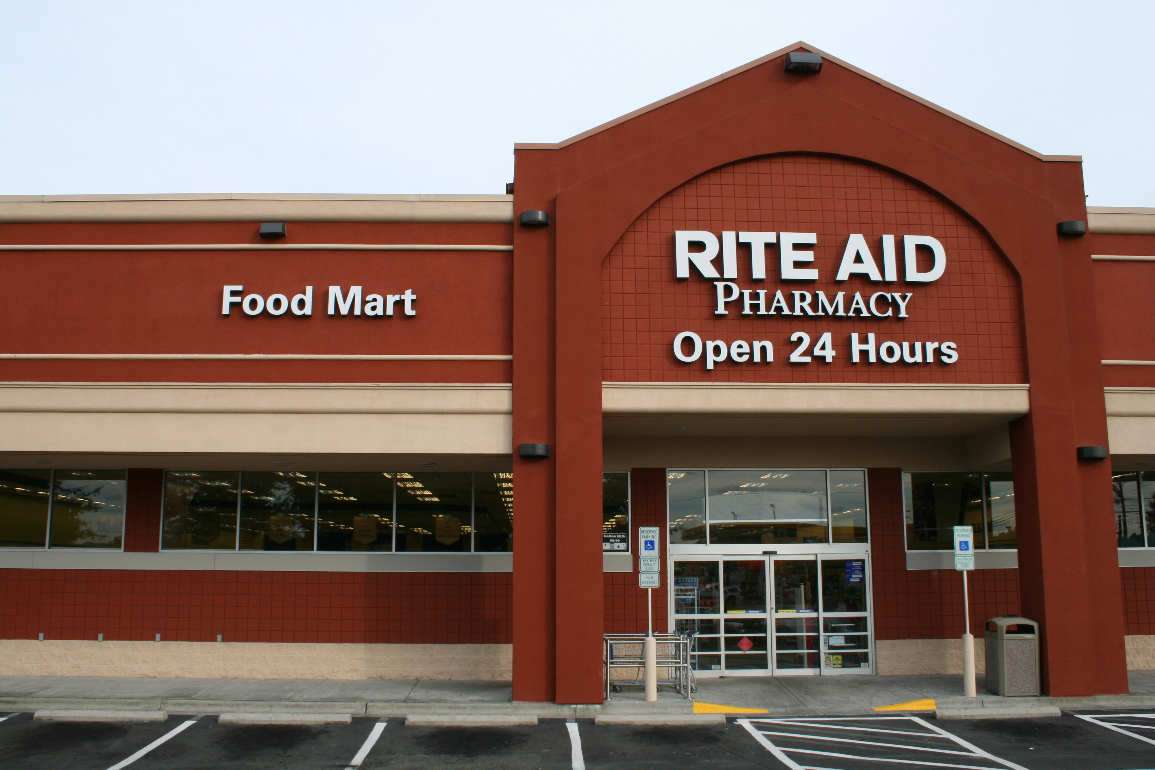 A Rite Aid Pharmacy (formerly Eckerd) at 200 North Lasalle Street in Durham, North Carolina. The "brick" color scheme was applied to this building upon the store's conversion to Rite Aid, whereas during its past life as Eckerd, its color scheme had been white and blue.